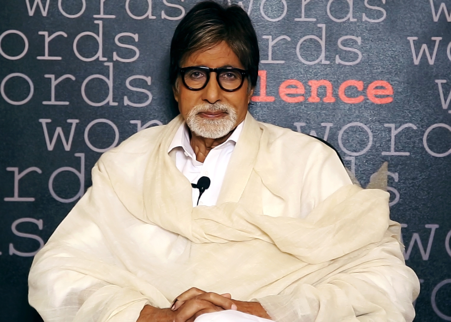 Amitabh Bachchan donates his voice for the English and Hindi language versions of the TeachAIDS animated software at BR Studios in Mumbai, India.